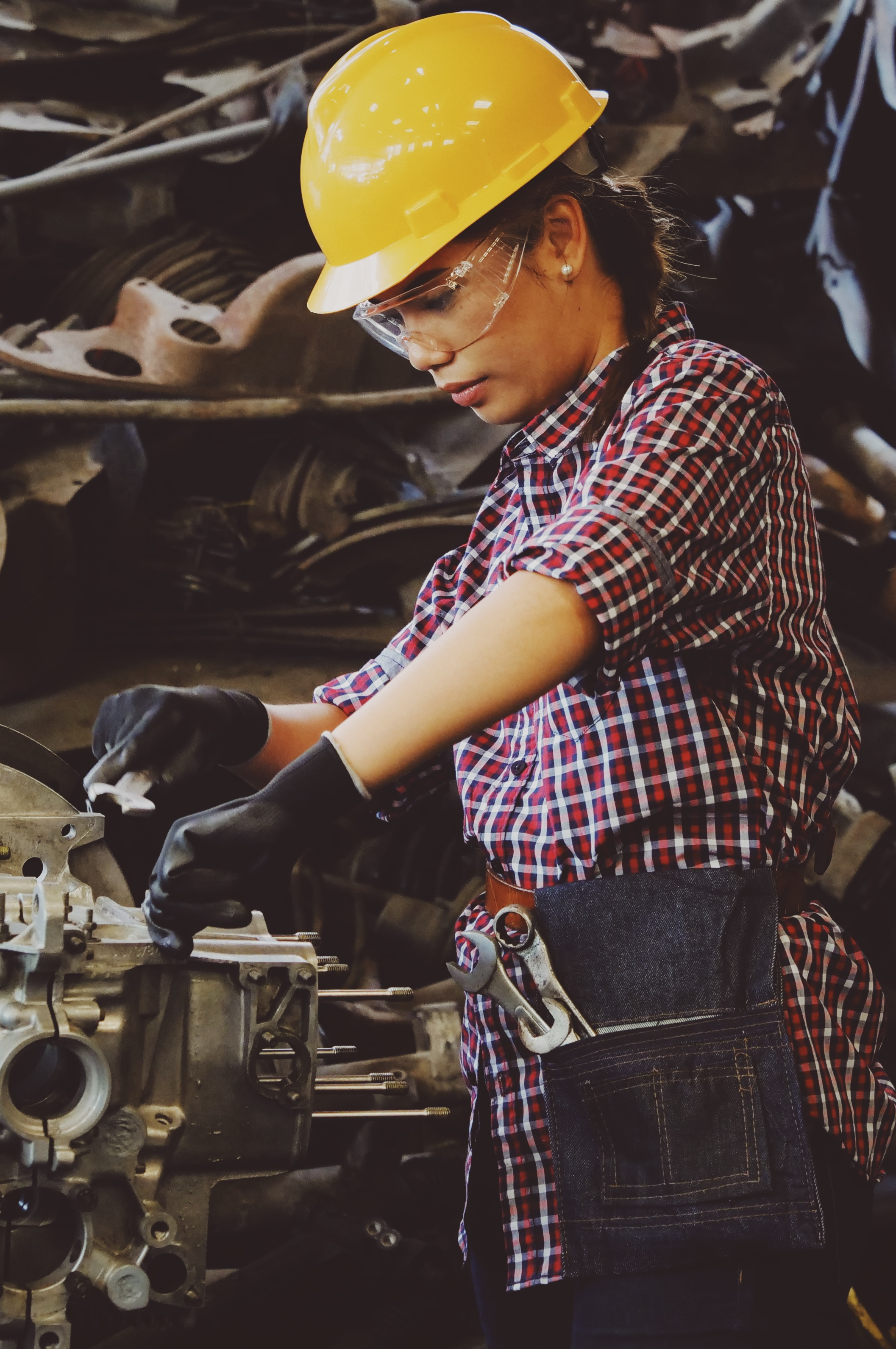 photograph of a woman mechanic in a yellow hard hat working on an engine